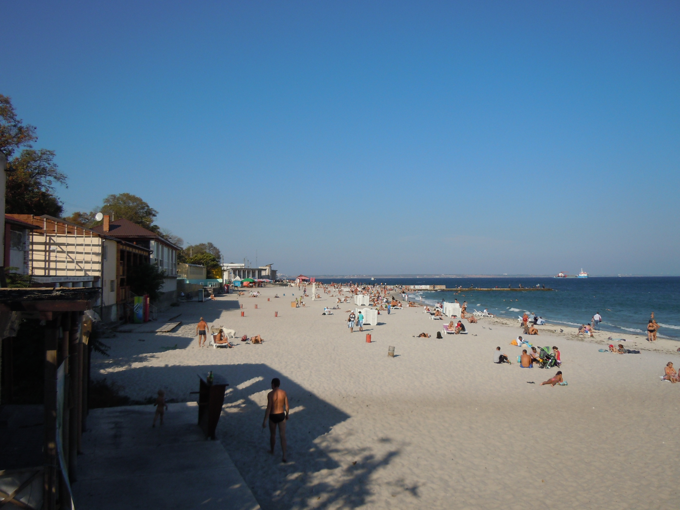 Langeron Beach, Odessa, Ukraine